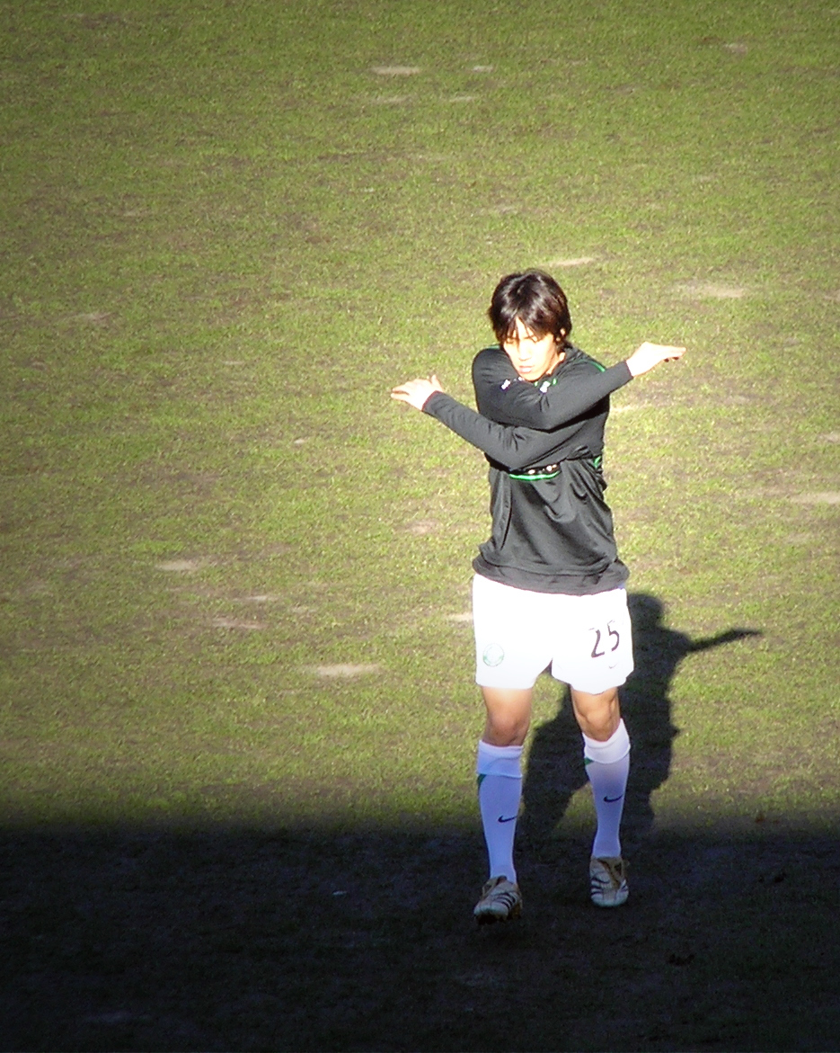 Shunsuke Nakamura (born 24 June 1978 in Yokohama, Kanagawa Prefecture) is a Japanese footballer.